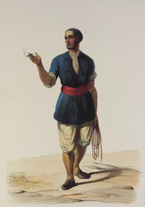 Galerie Royale de Costumes. No. 70, Portefaix Juif a Gibraltar from the collection of the Jewish Museum in London